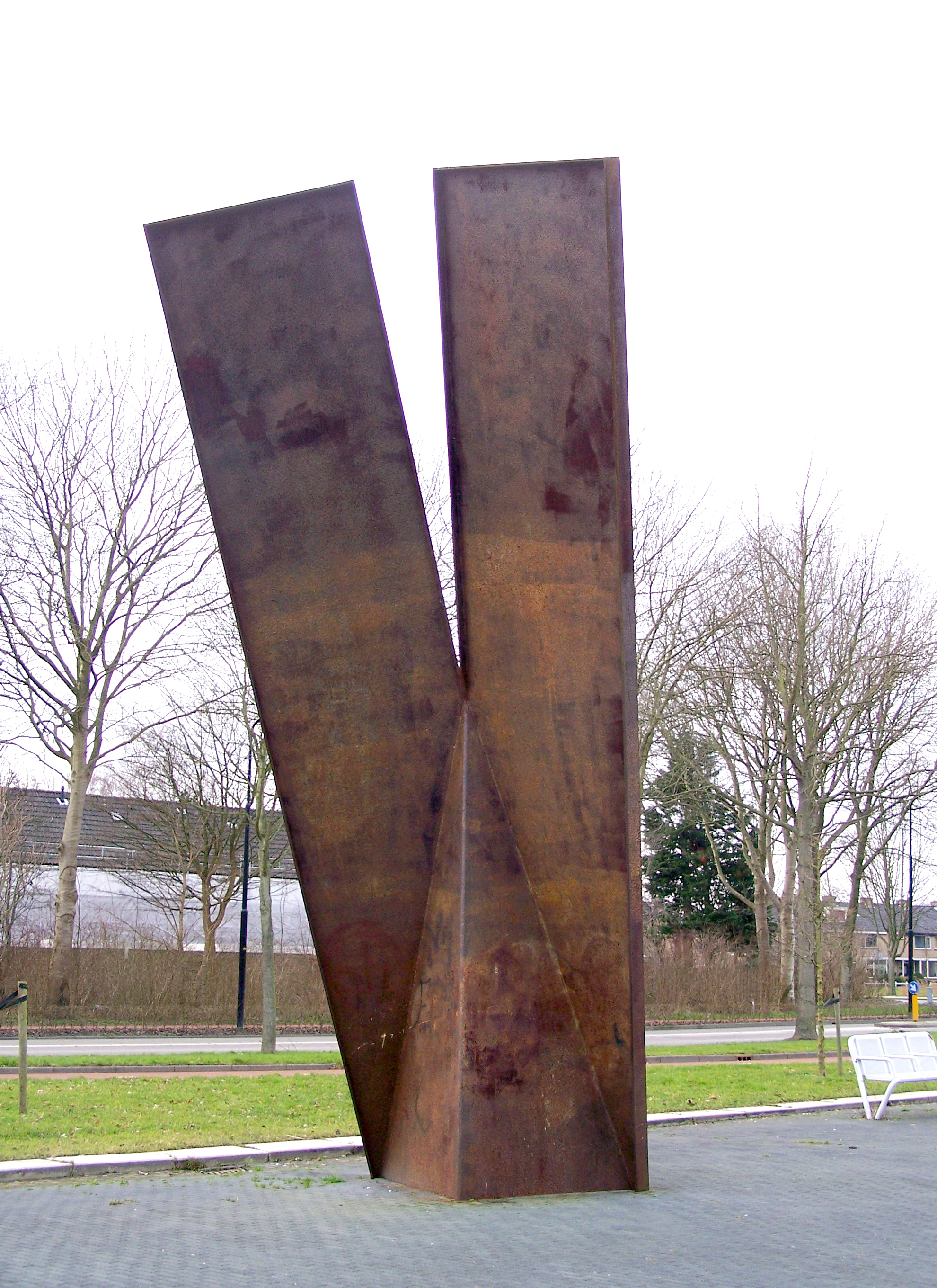 Sculpture by Evert Strobos. Placed at the Beukenlaan at the Han Fortmanncollege. The sculpture used to be at the Bevelandseweg, the former location of the school.